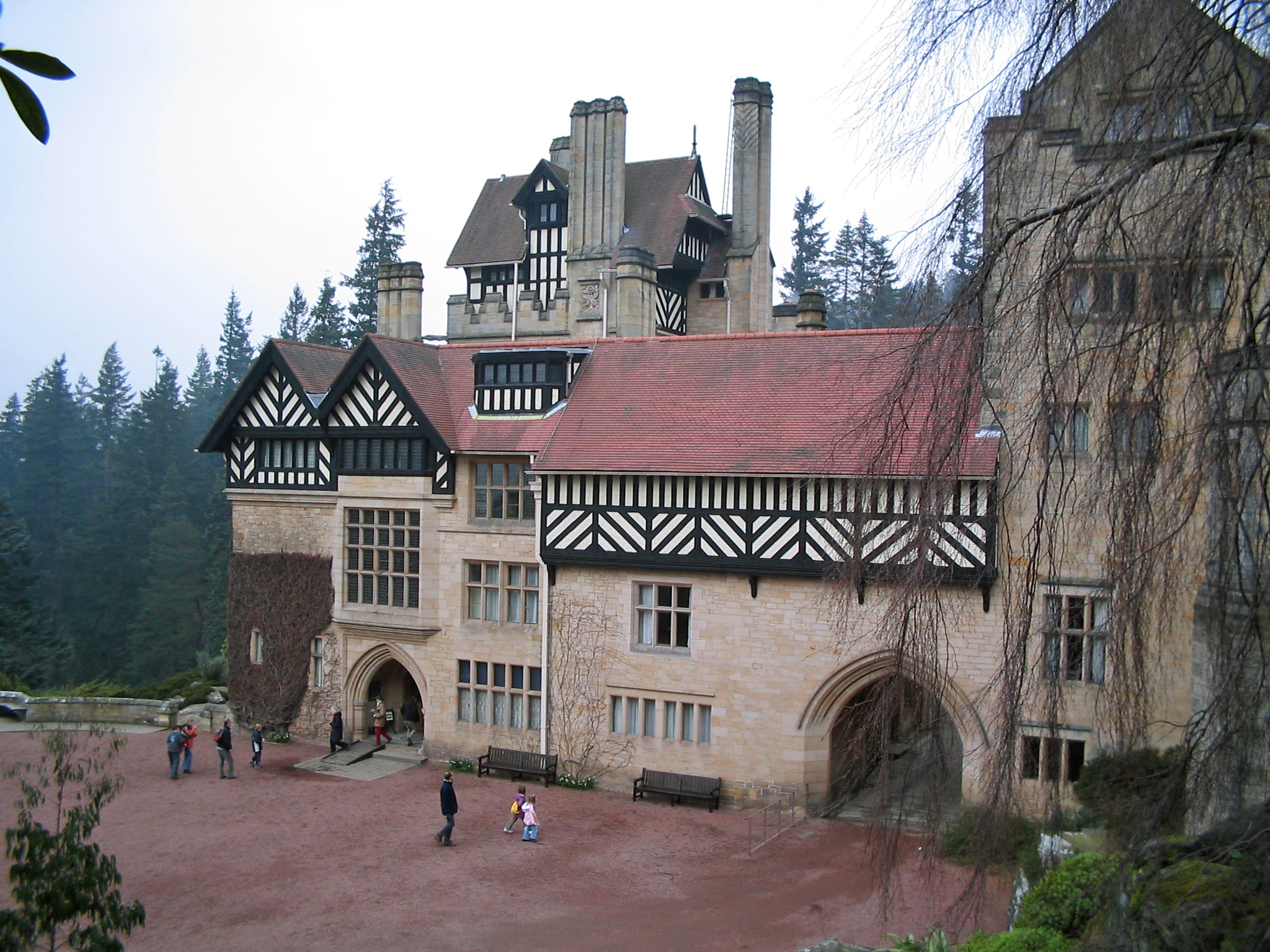 Cragside House, National Trust property in Northumberland, England.